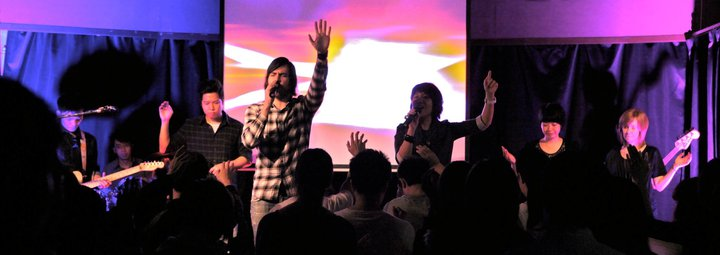 Lifehouse International Church Hong Kong - 3PM English/Cantonese Service Lifehouse International Church